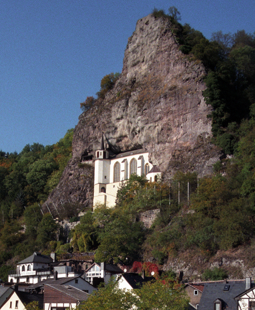 Photo of the Felsenkirche (aka church of the rock), a church built into a natural niche in the rocks, above the houses of Oberstein, Germany. Wyrich IV of Daun-Oberstein had it constructed in the years 1482-1484. Due to its prominent location, the church has become a symbol of the city. Own work - photo made by Bob Walker in Idar-Oberstein, Germany in 2005.